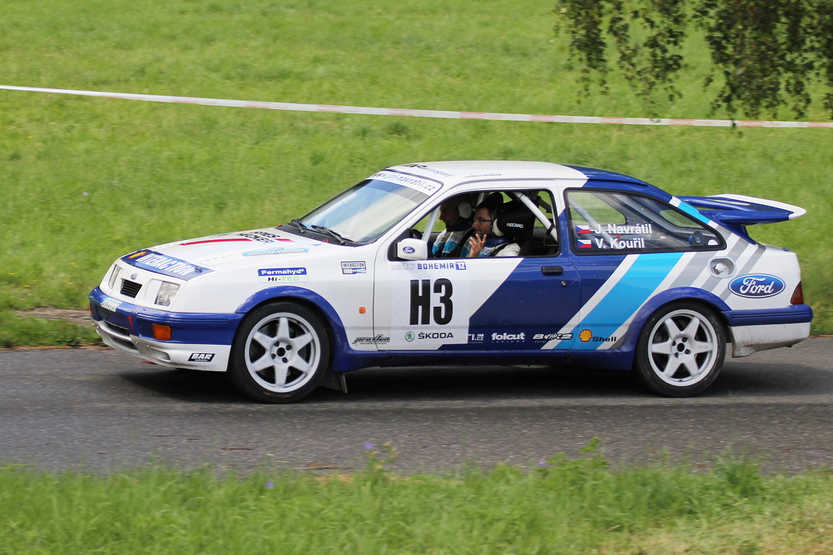 H3 Jiří Navrátil - Vít Kouřil (CZE) - Ford Sierra RS Cosworth / group A / 1987, Rally Bohemia 2012